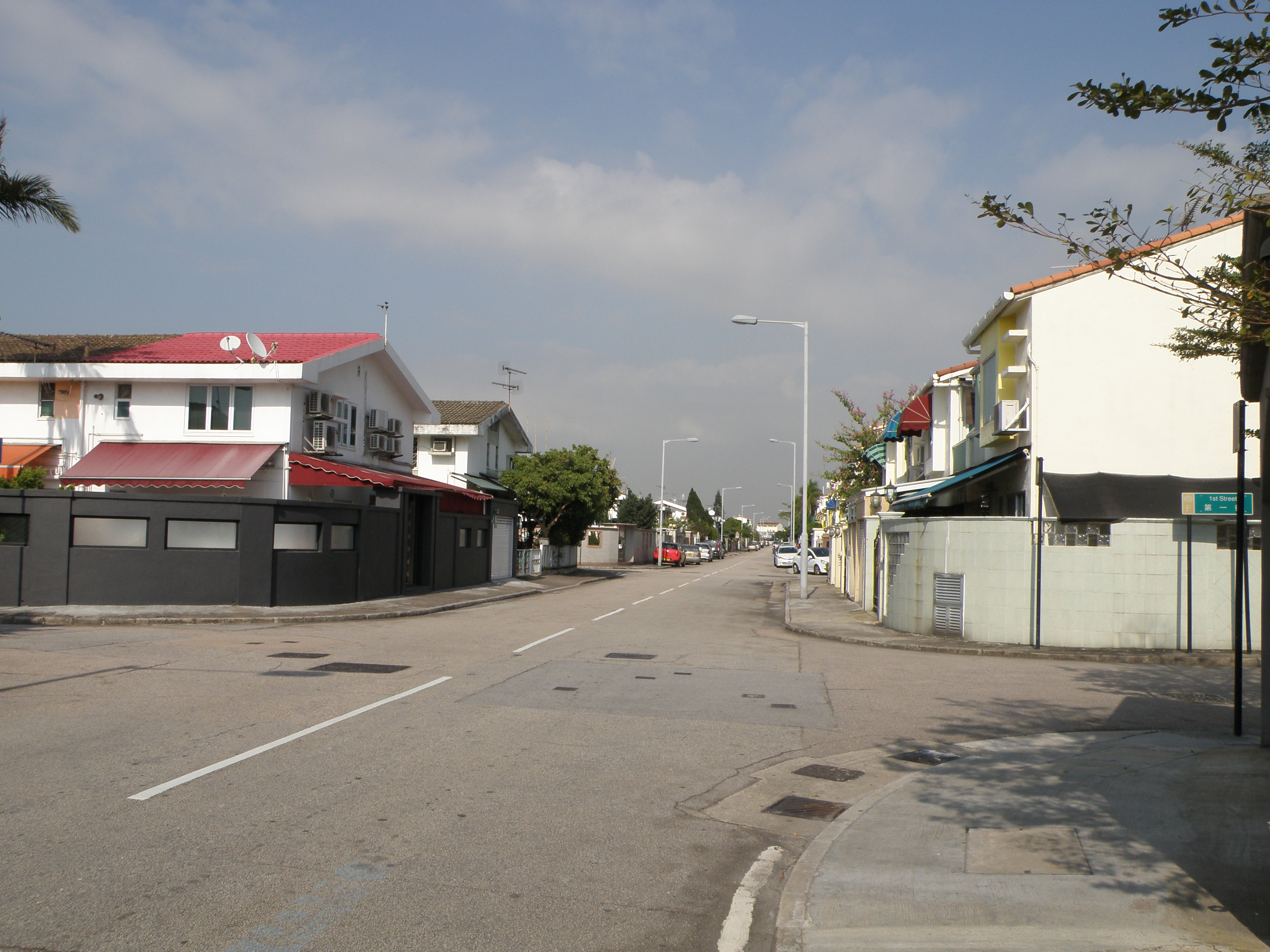 Fairview Park in Tai Sang Wai, Hong Kong.